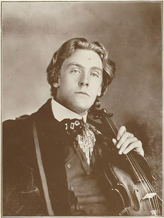 Ernest Newlandsmith was an English musicologist who travelled to the Middle East in 1926, visiting Palestine and Egypt, where he became interested in the music of the Coptic Orthodox Church. He and Dr Raghib Muftah compiled sixteen volumes of music which are now in the United States Library of Congress.